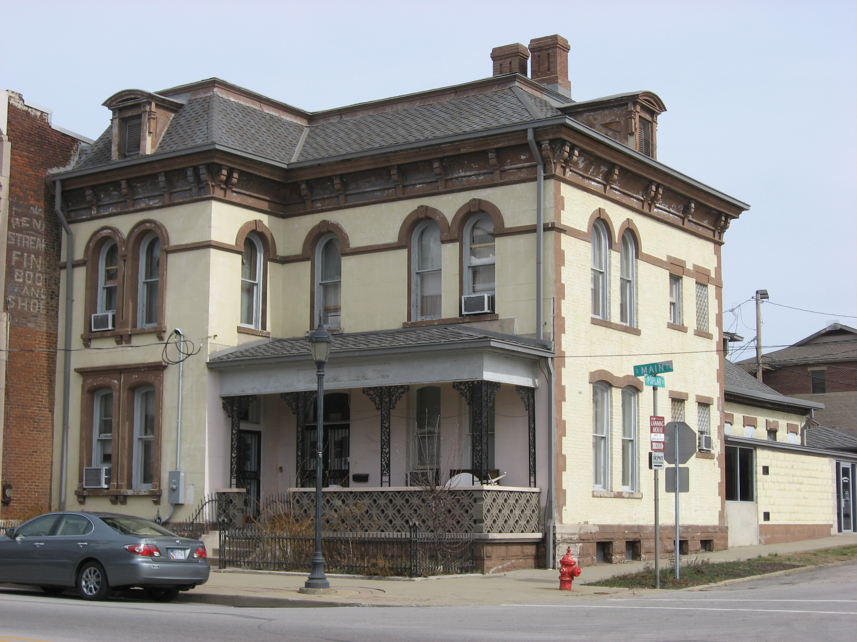 Front of the Washington County Jail and Sheriff's Residence, located at 106 S. Main Street in Salem, Indiana, United States. Built in 1881, it is listed on the National Register of Historic Places.